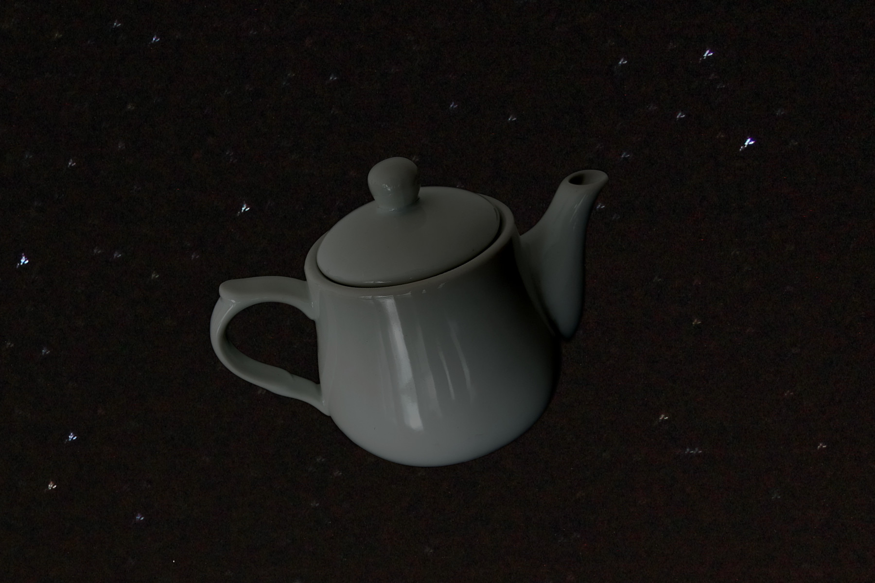 Artistic rendering of a teapot in space